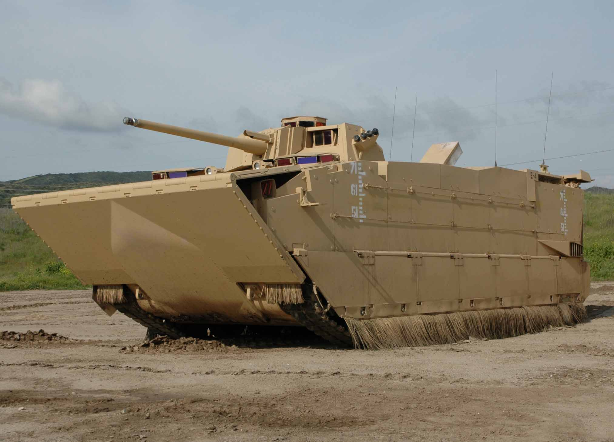 A prototype of the Expeditionary Fighting Vehicle, planned for deployment to the United States Marine Corps in 2015.